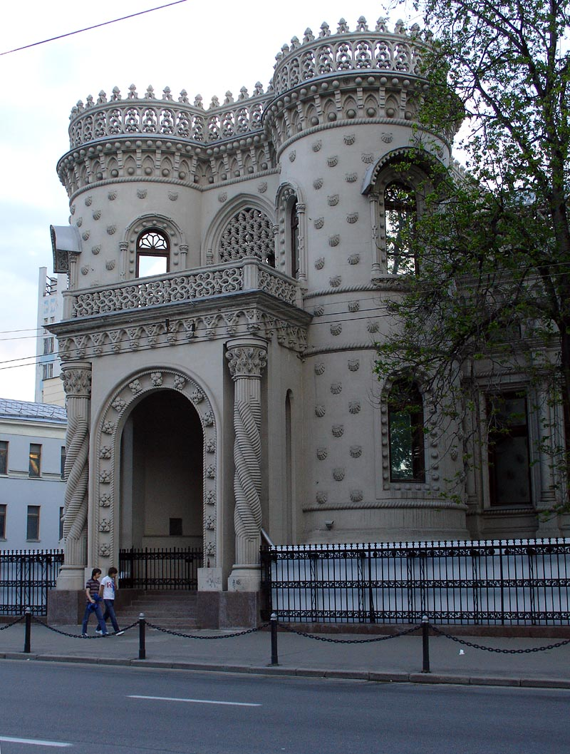 16, Vozdvizhenka Street, Moscow - present-day Europa House